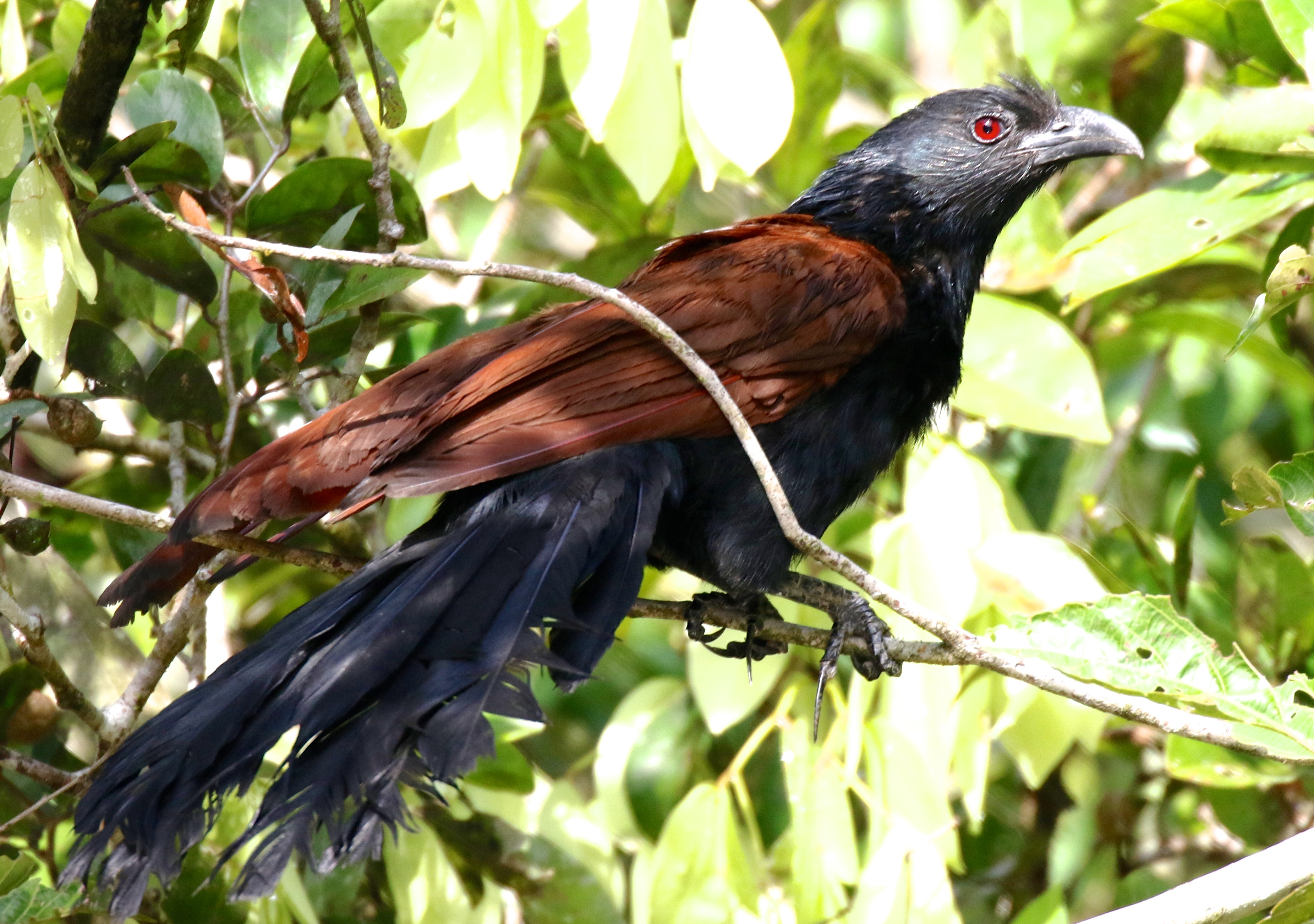 Sukau Rainforest Lodge Kinabatangen River Sabah, Borneo - Malaysia